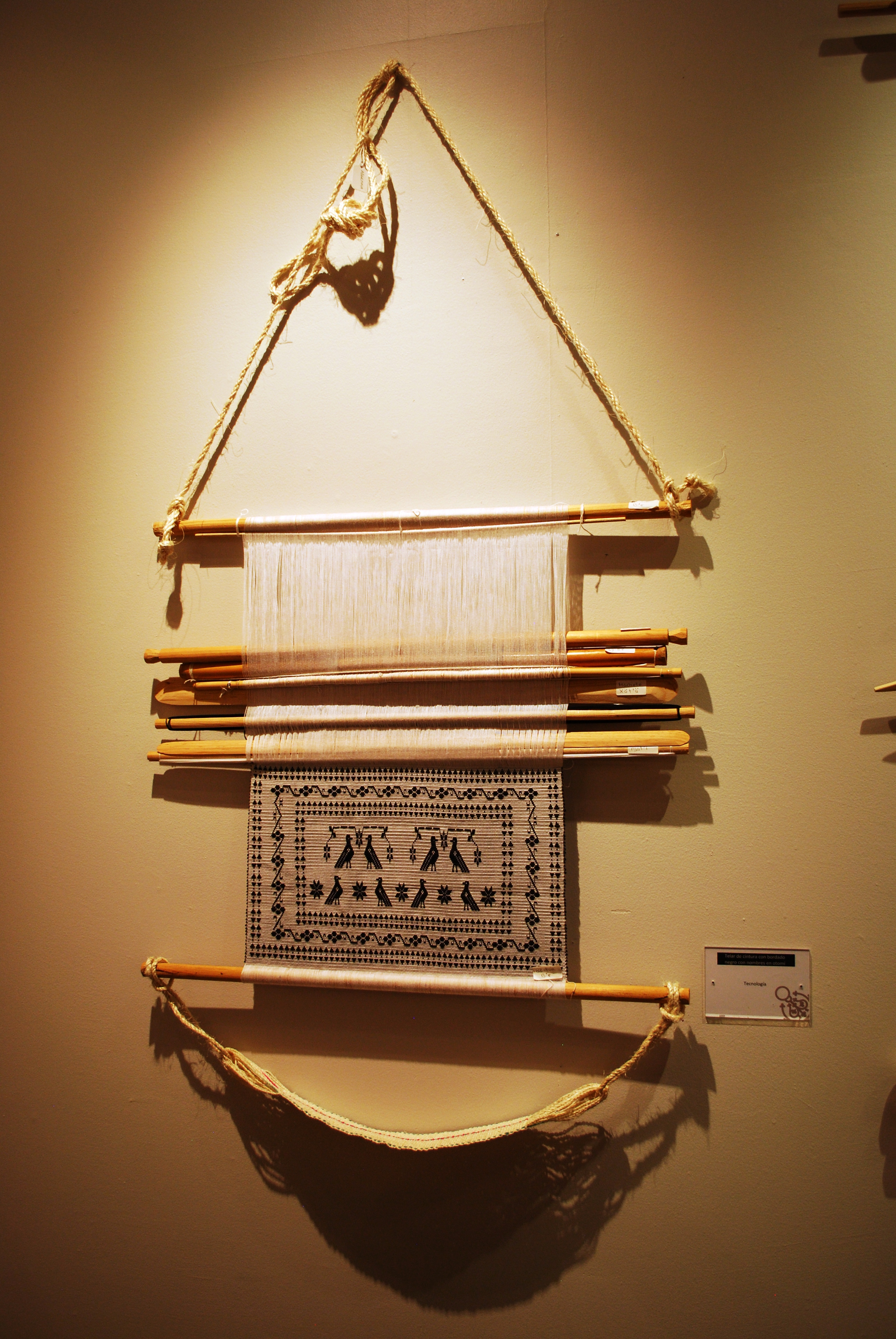 cloth with bird motif in progress on a backstrap loom as part of a temporary exhibition of Hidalgo craft at the Museo de Arte Popular, Mexico City